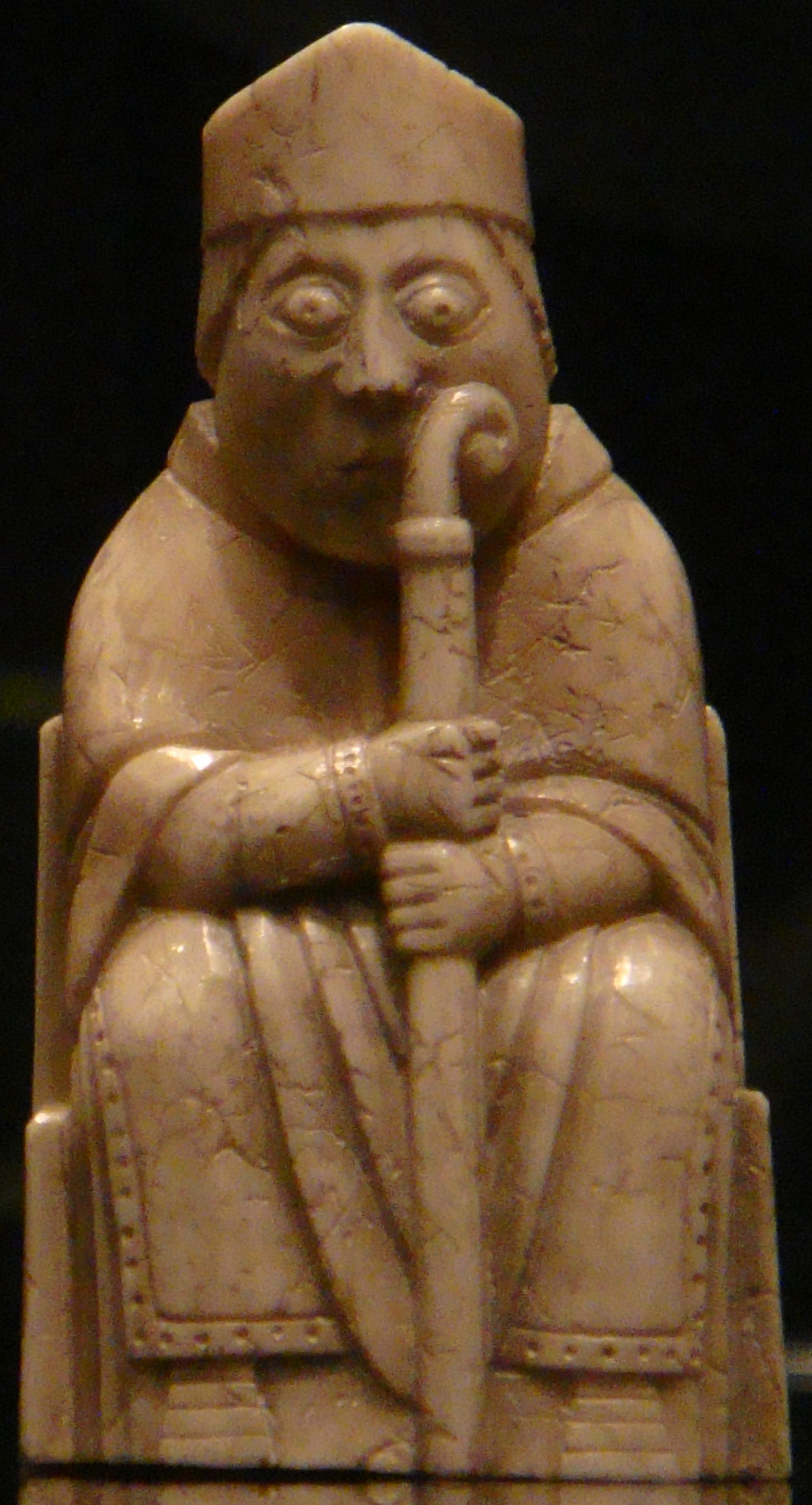 Exhibition in the National Museum of Scotland. Pieces from the British Museum, National Museum of Scotland and other collections. A bishop with number of permanent collection NMS 26